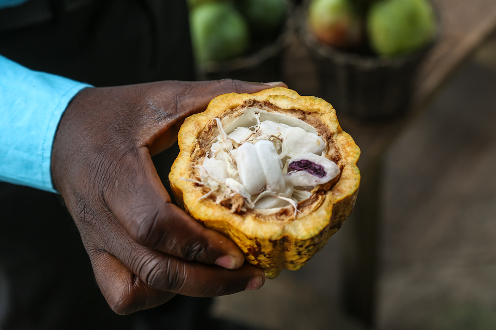 Cacao fruit inside, Ghana This is an image of food from Ghana